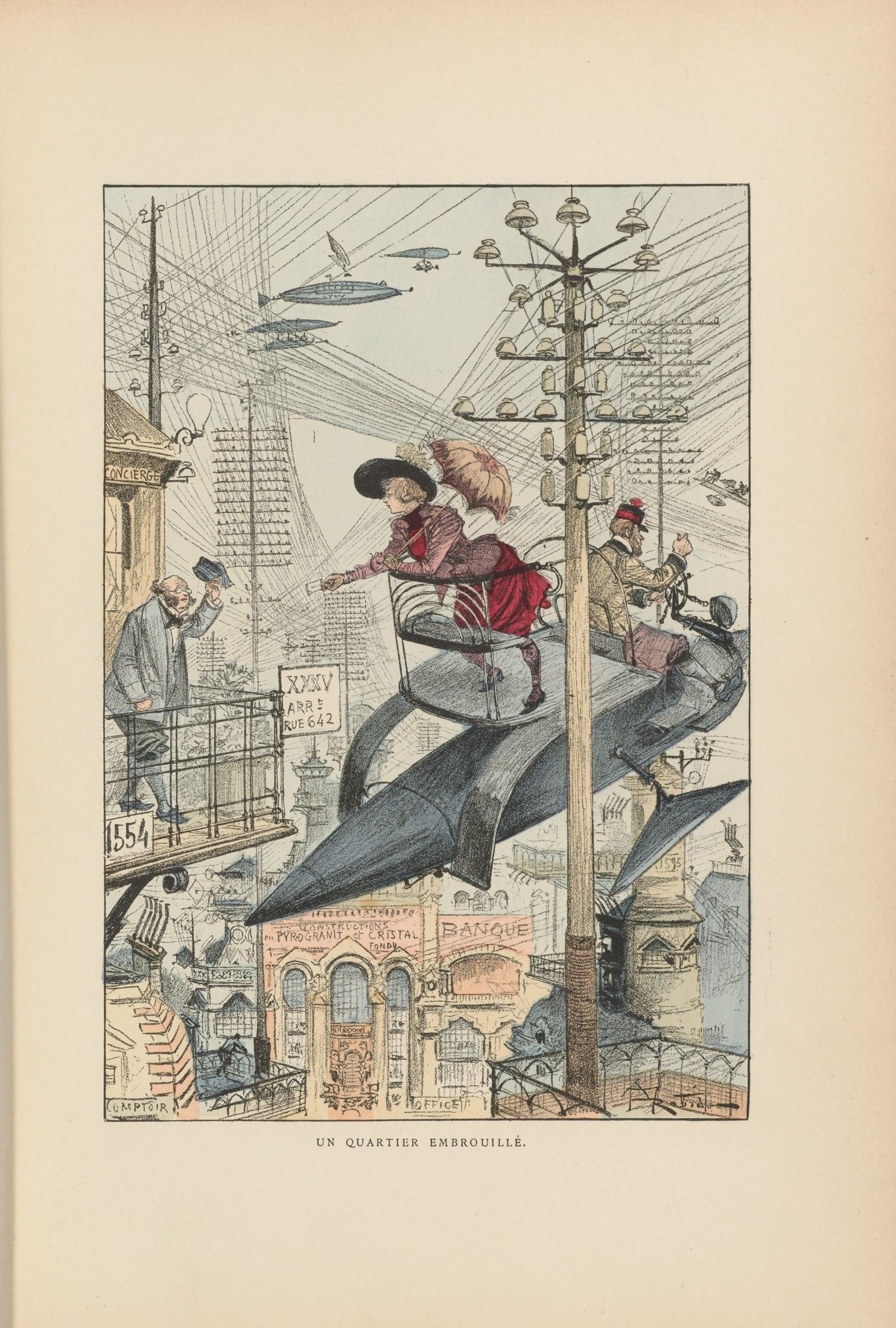 Illustration: "Un quartier embrouillé" by Albert Robida (1848-1926), from Le vingtième siècle, Paris: a Librarie Illustrée, 1883. *90W-205, Houghton Library, Harvard University